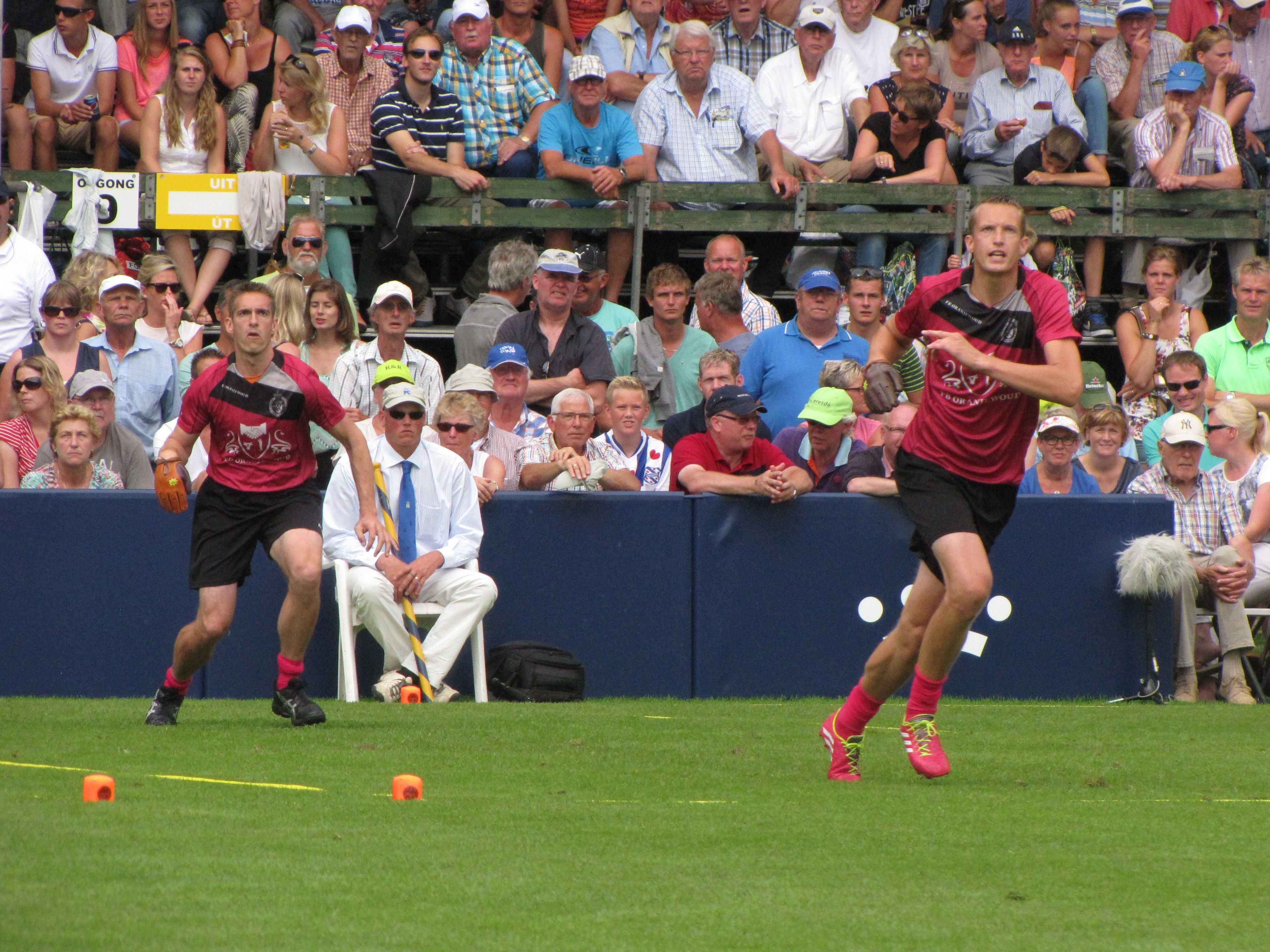 Marten Feenstra and Pier Piersma at the PC of 2014Frysk: Marten Feenstra en Pier Piersma op de PC fan 2014